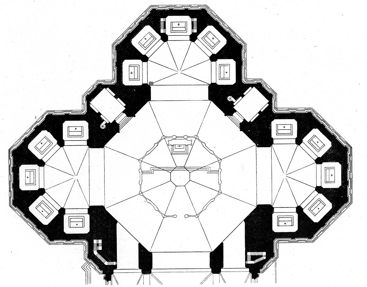 Plan of Florence cathedral, from P. Laspeyres, Die Kirchen Der Renaissance in Mittel-Italien, (Berlin und Stuttgart, 1882) p 1, no. 1.